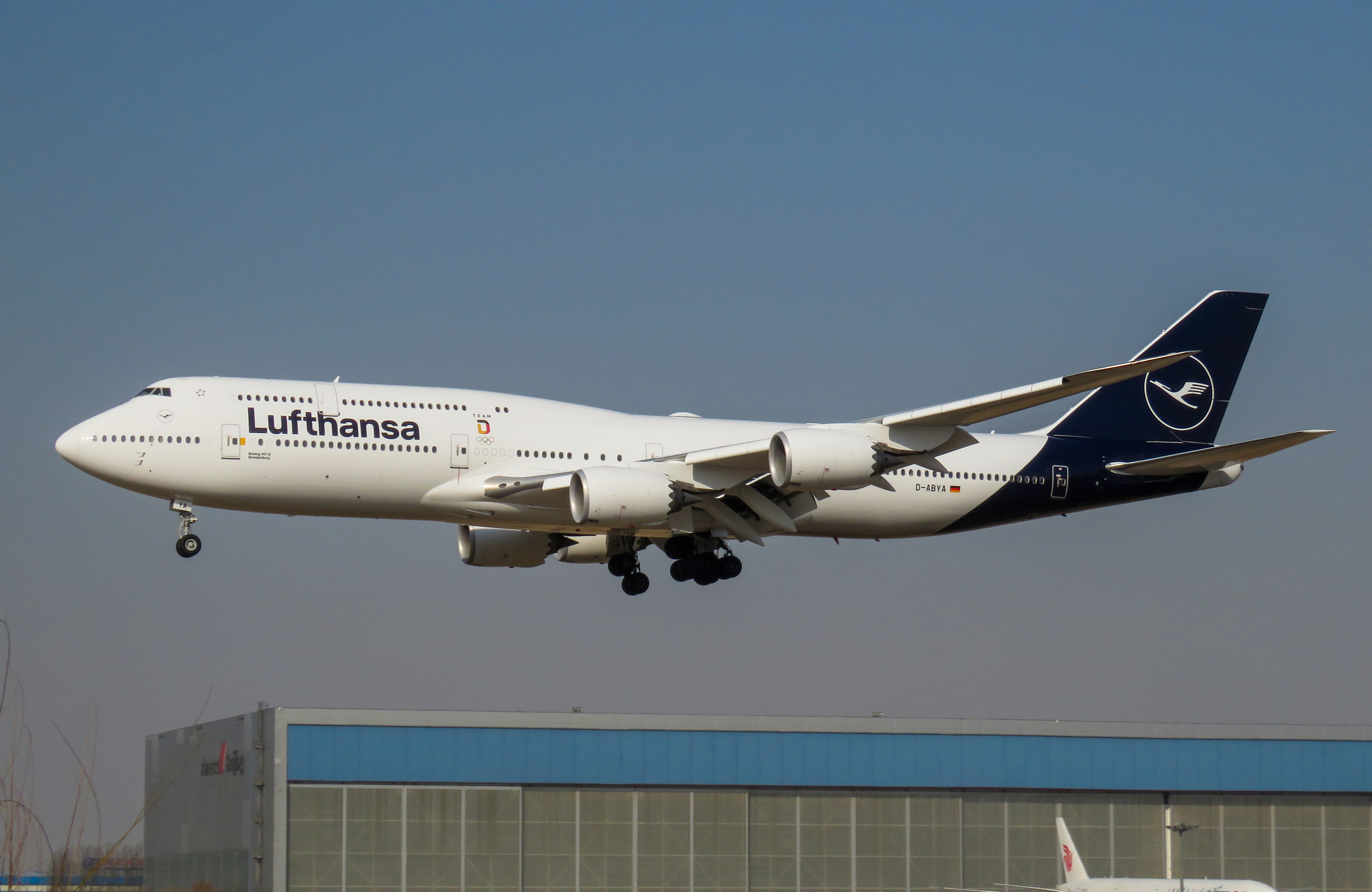 Lufthansa 720 from Frankfurt. Herzlich willkommen, "Brandenburg" in new livery! Star of today is this jumbo, which landed on RWY 19 - I have to climb up the loess slope in Tahe Village! Something like another field practice... and well worth it! A "Team D Olympia" logo is also spotted - this aircraft has just flew German athletes home from South Korea as LH713 after the 2018 Winter Olympics.